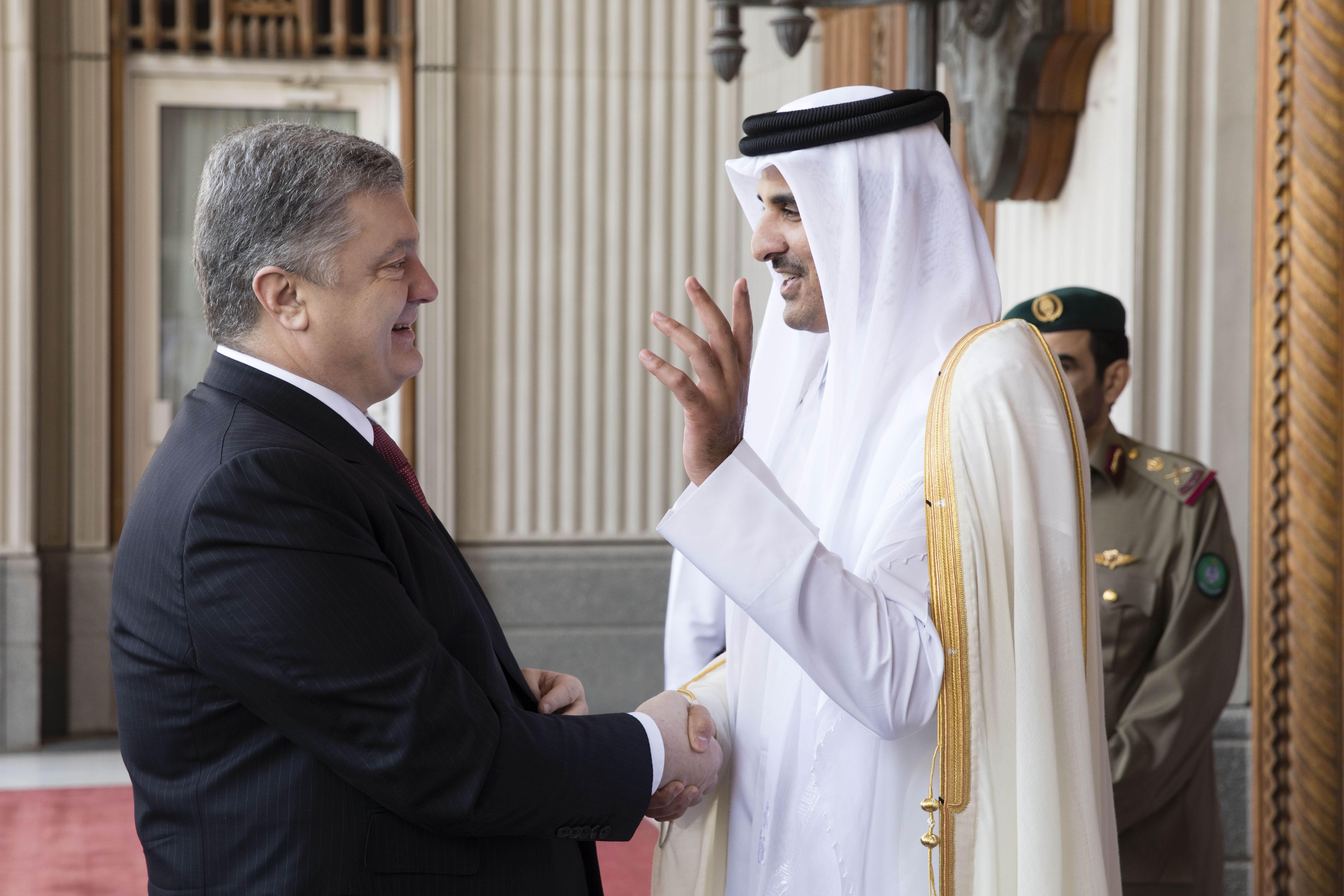 Official visit to Qatar